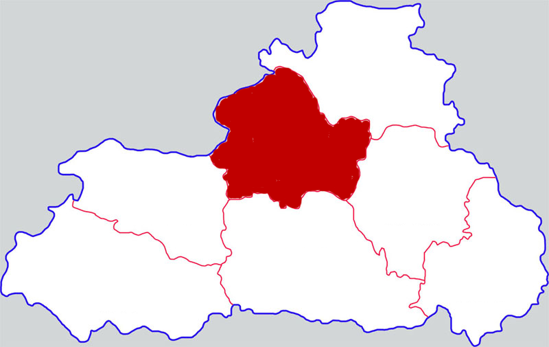 Location of Shangzhou district in Shangluo city, China